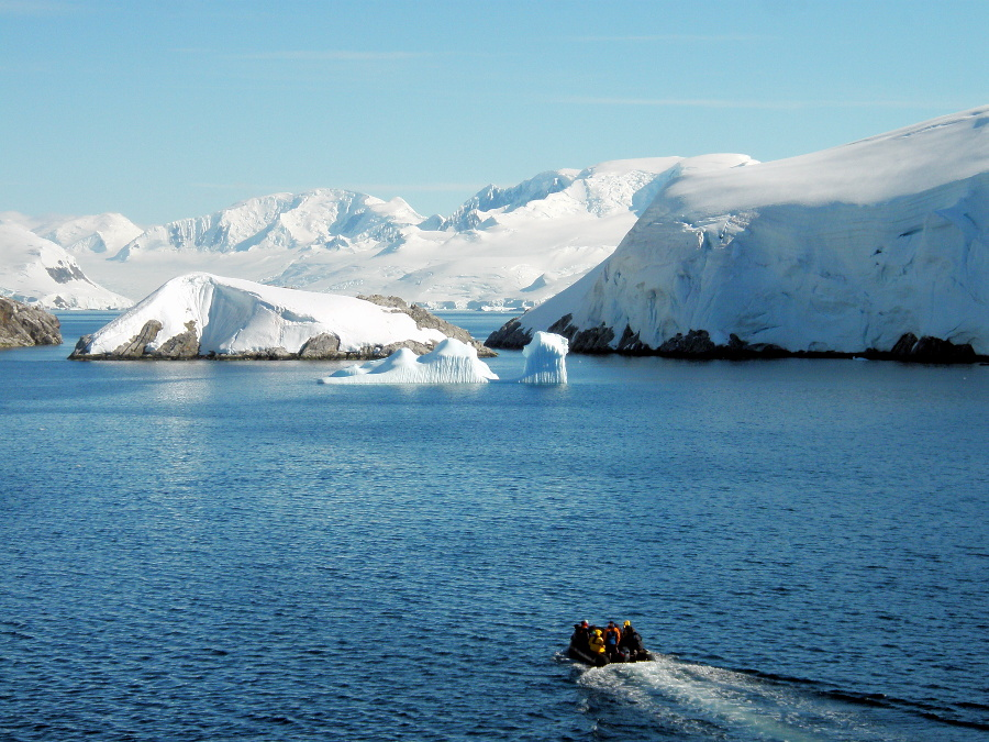 One of M/V Lyubov Orlova's zodiacs (motor pontoons) has already left the ship's gangway and now runs into Mechior Islands archipelago.